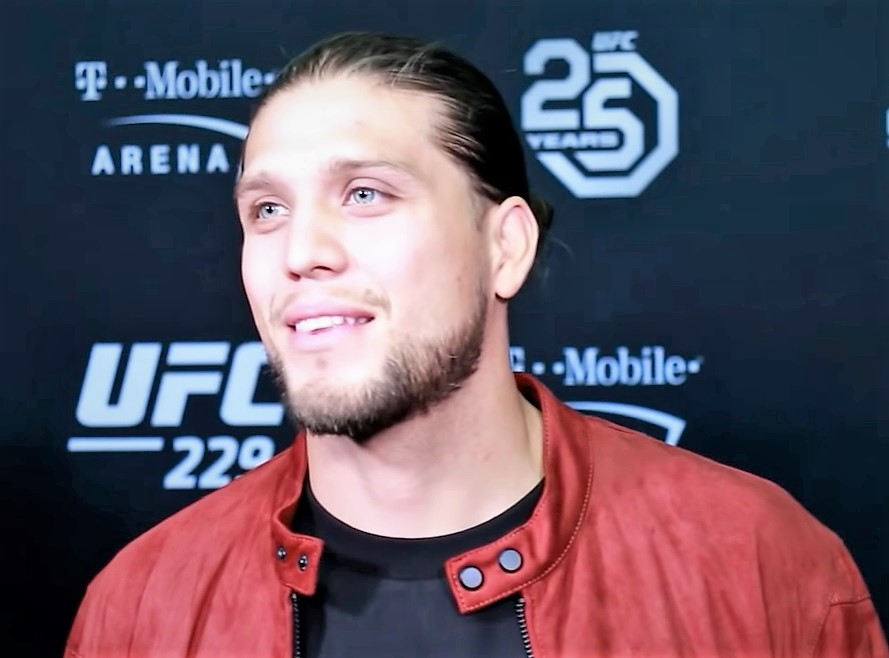 BRIAN ORTEGA DOESN'T KNOW IF MAX HOLLOWAY WILL MAKE UFC 231 BRIAN ORTEGA CONFIRMS THE UFC HAVE A REPLACEMENT READY FOR UFC 231 Visit Europe's biggest MMA website Follow us on our Social Media channels: Facebook: Instagram: Twitter